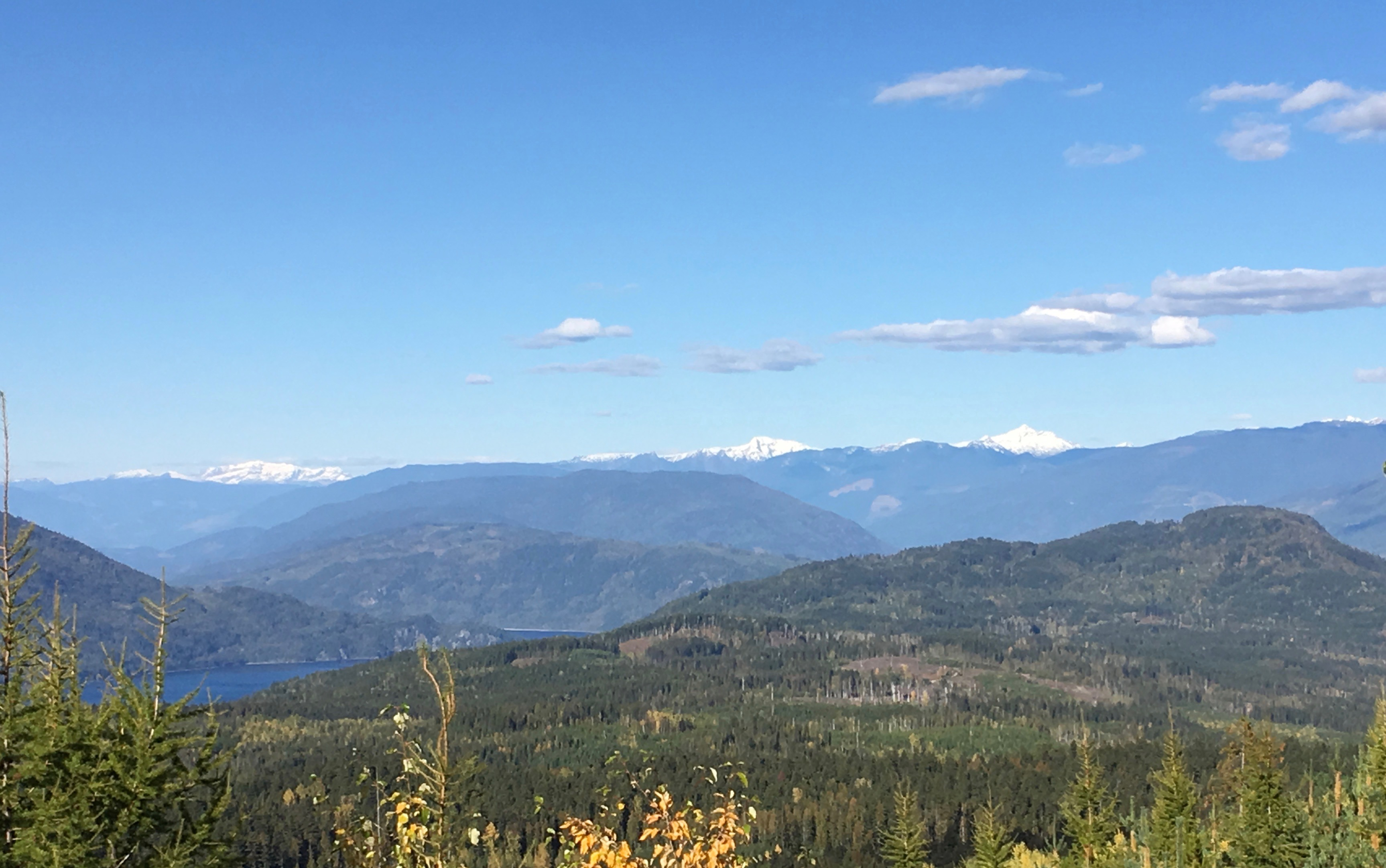 The Anstey Range, a sub range of the Monashee Mountains, on the east shore of Shuswap Lake, British Columbia, Canada.